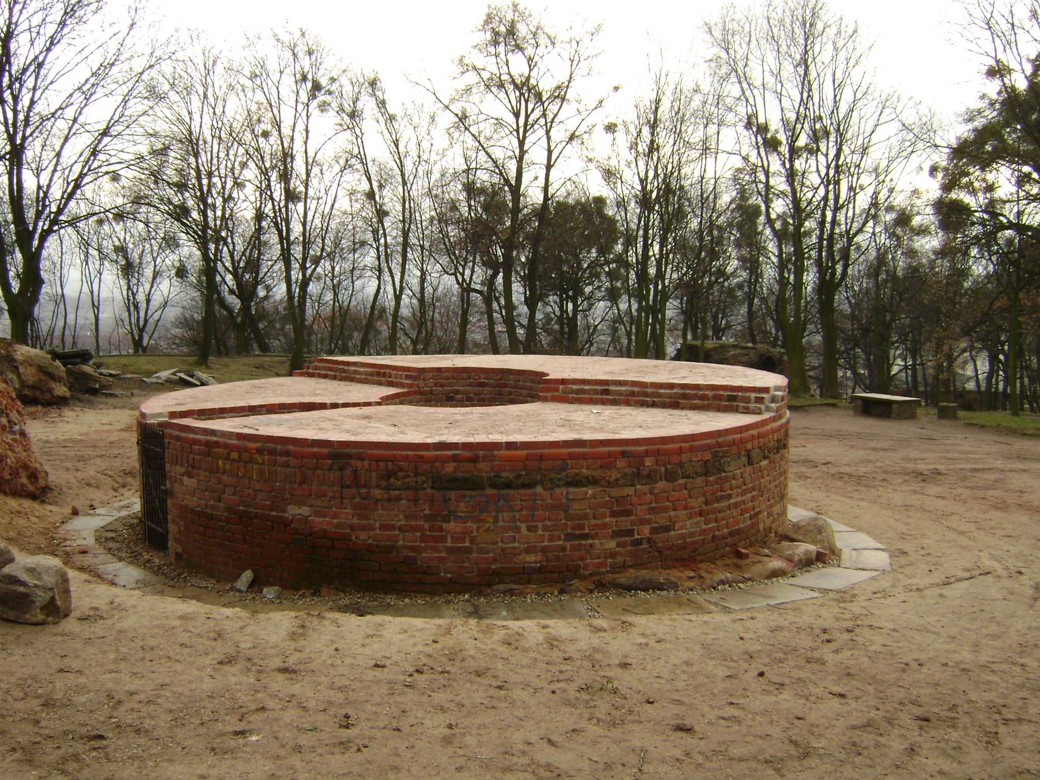 Remains of "Klimek" tower in Grudziądz